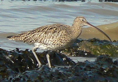 Eurasian Curlew (Numenius arquata) at Reculver, Kent, England.